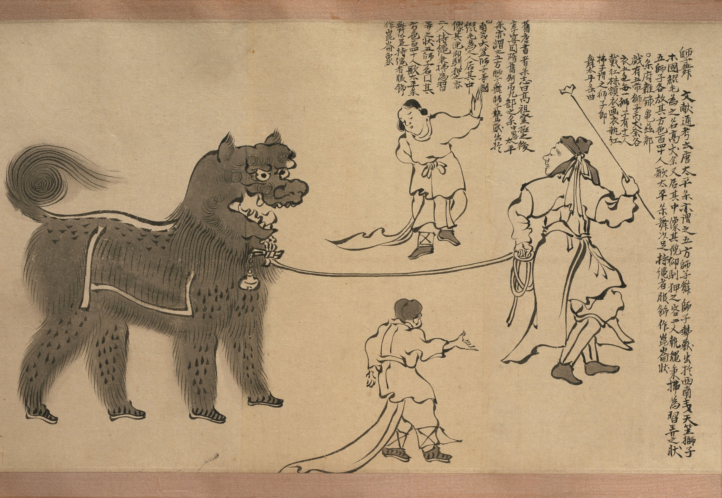 Illustration from Japanese scroll painting Shinzei-kogakuzu (信西古楽図) showing a lion dance. The original Heian period painting is lost, this is an 18th century copy of a 15th century copy.